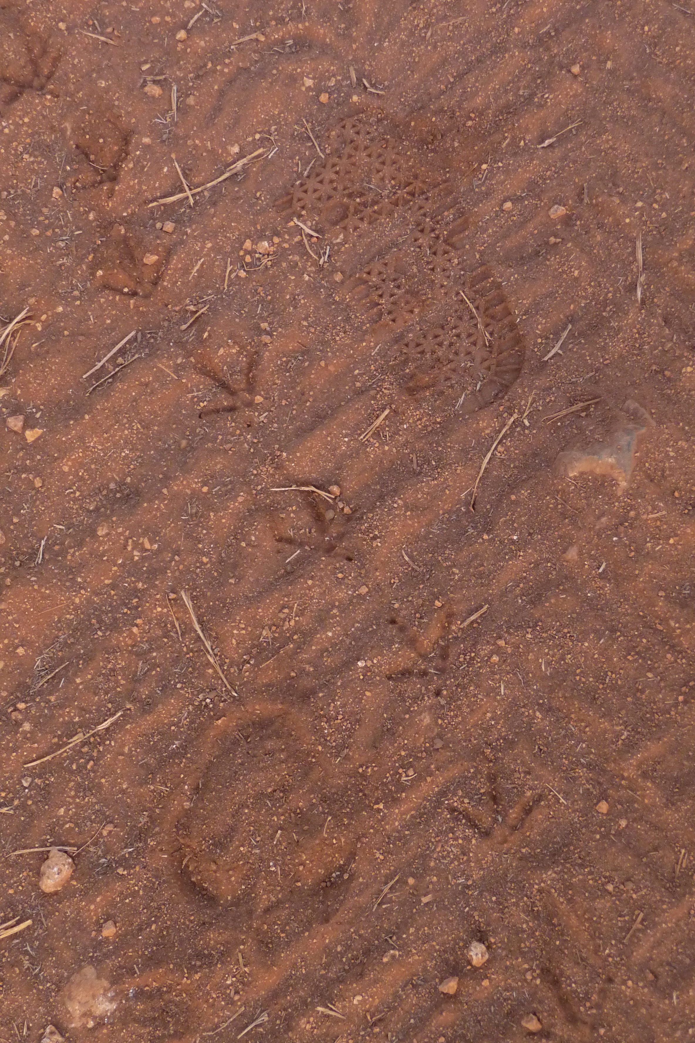 Mount Carmel